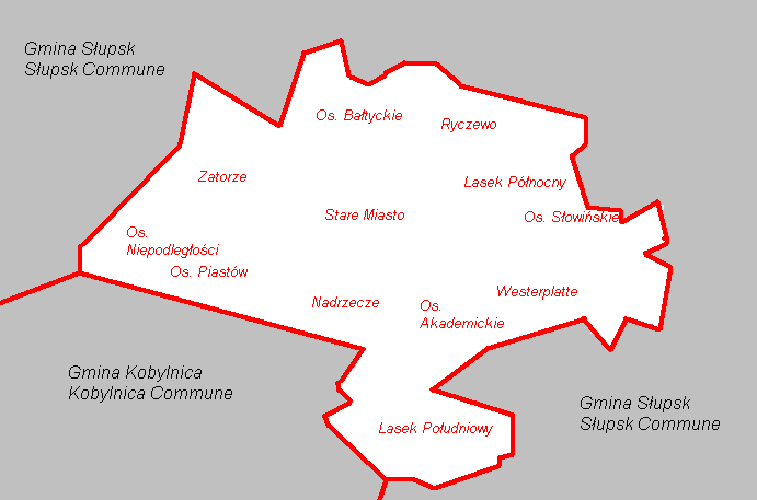 A scheme showing the boundnaries of the city of Słupsk, Poland, and its principal neighbourhoods.